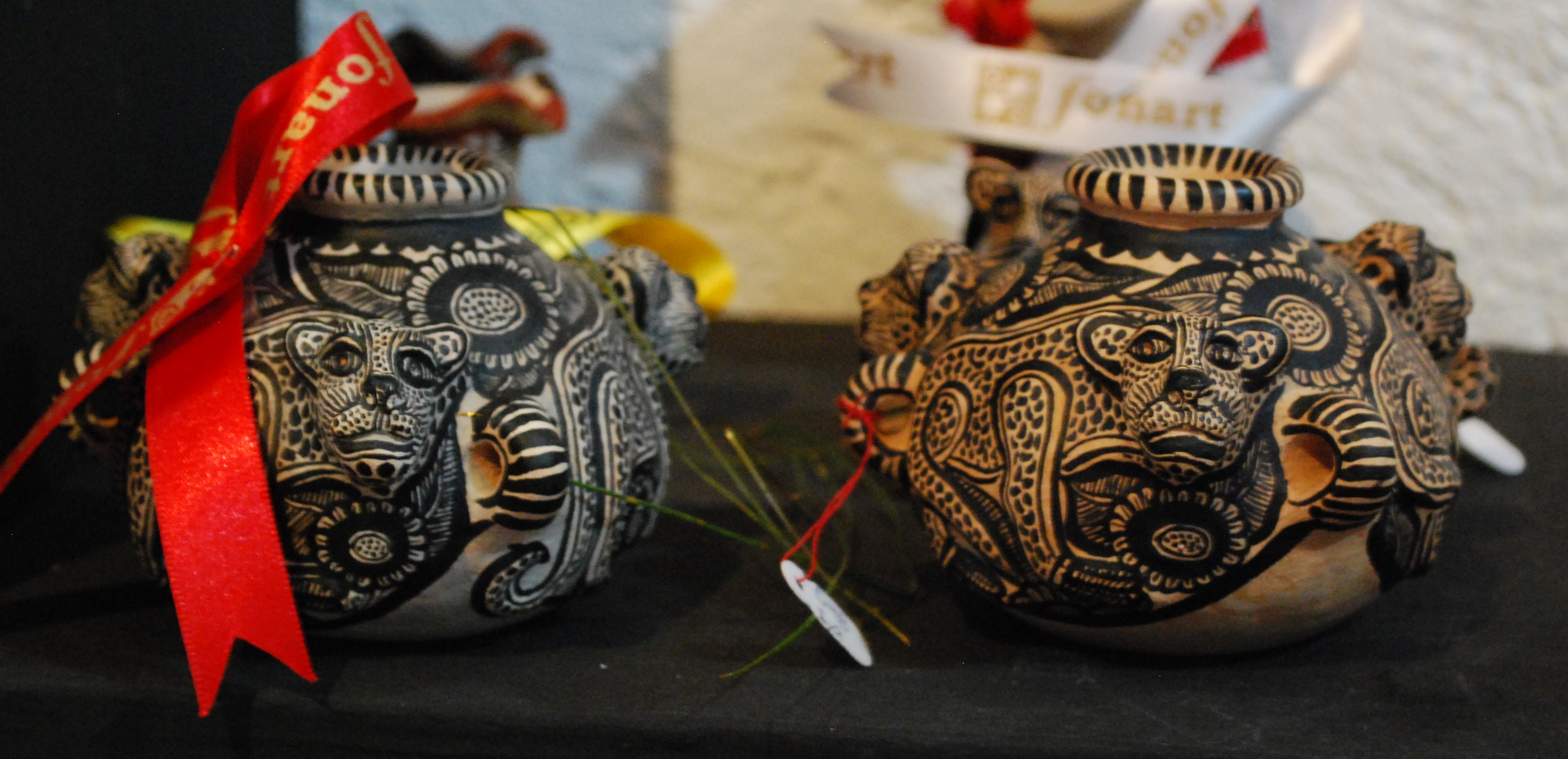 jars with wild cats on them on display at the Museo de las Culturas Populares de Chiapas in San Cristobal de las Casas, Chiapas, Mexico